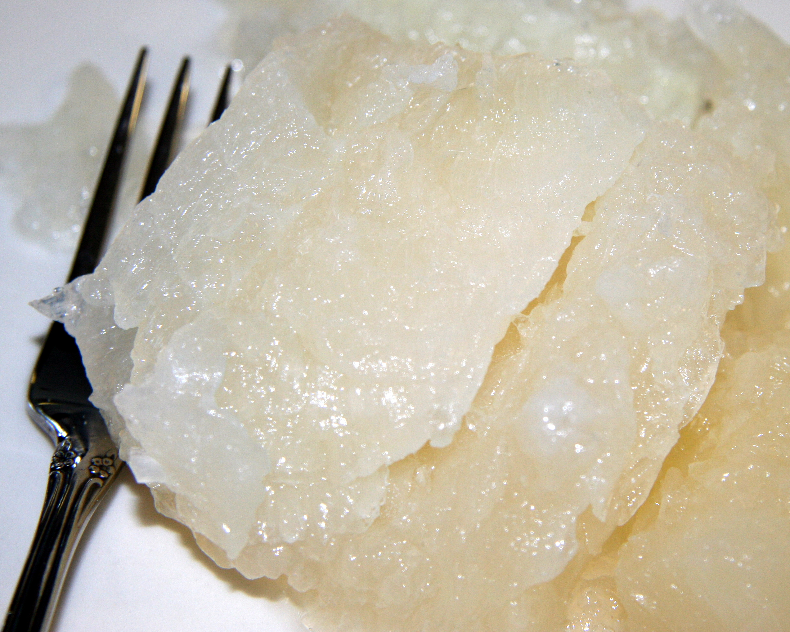 A fork next to a serving of lutefisk at a Norwegian celebration at Christ Lutheran Church in Preston, Minnesota